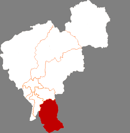 Location of Shuangyang district in Changchun City, China